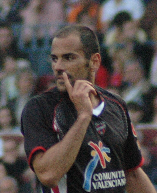 Salvador Ballesta, Levante Unión Deportiva's player, during the match FC Barcelona-Levante UD.